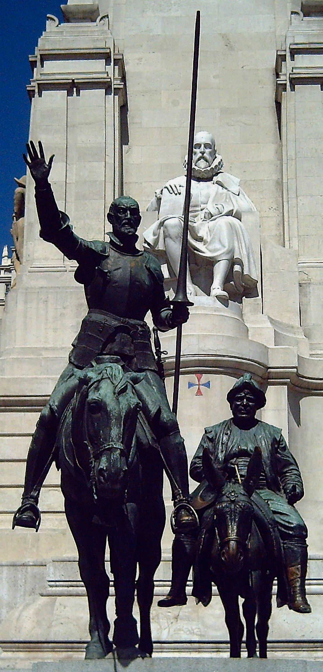 Statues of Don Quixote and Sancho Panza.